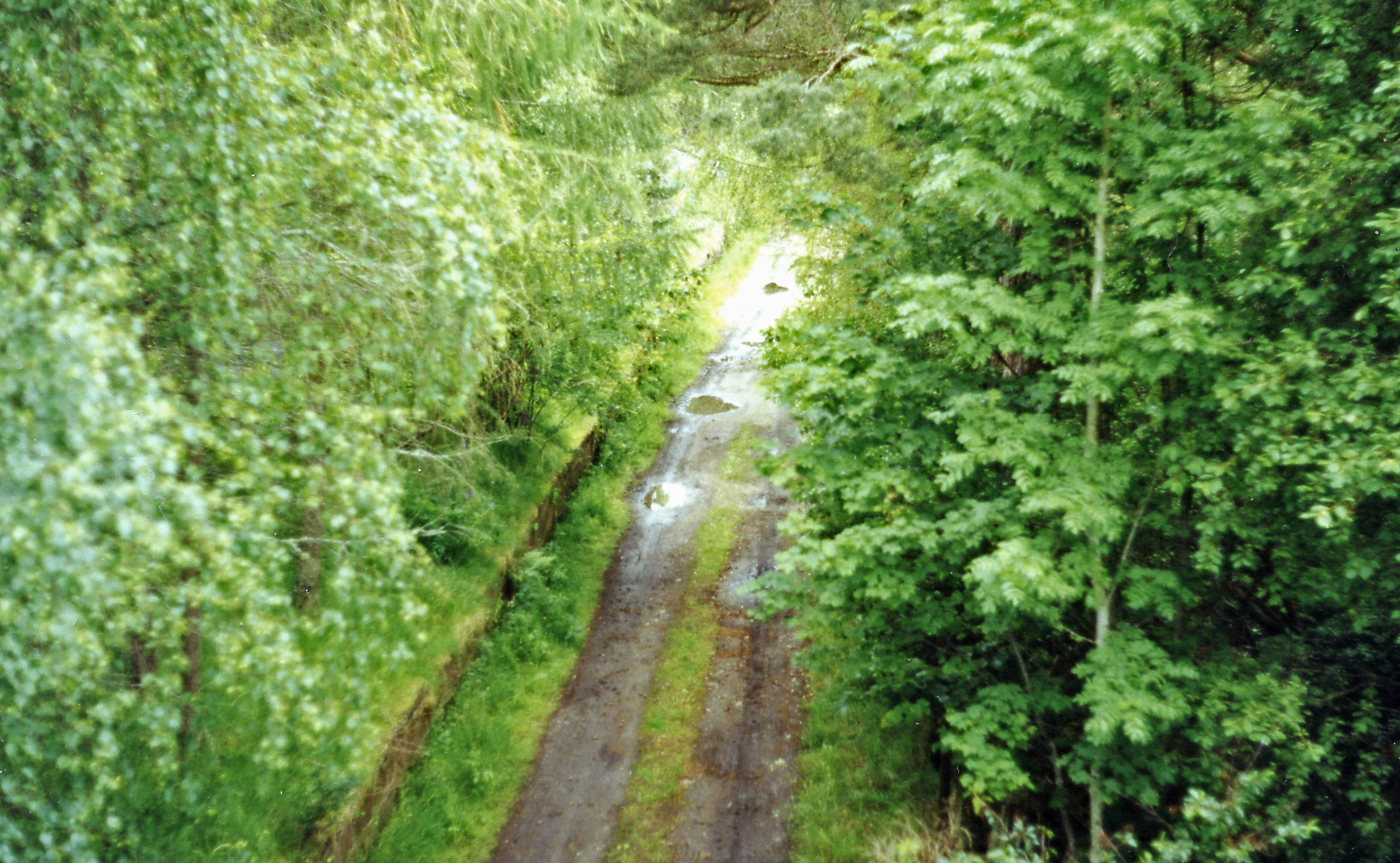 Advie station (site/remains), 1997. View westward, towards Boat of Garten: ex-GNSR Speyside line, Craigellachie - Boat of Garten, closed entirely from 18/10/65. It seems to be now on the Speyside Way.